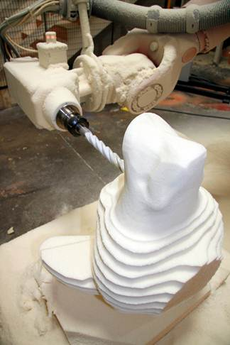 image of part being machine using PowerMILL robot interface